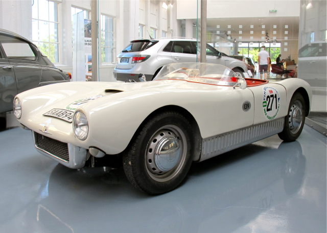 Saab Sonett in the Saab Car Museum in Trollhättan, Sweden